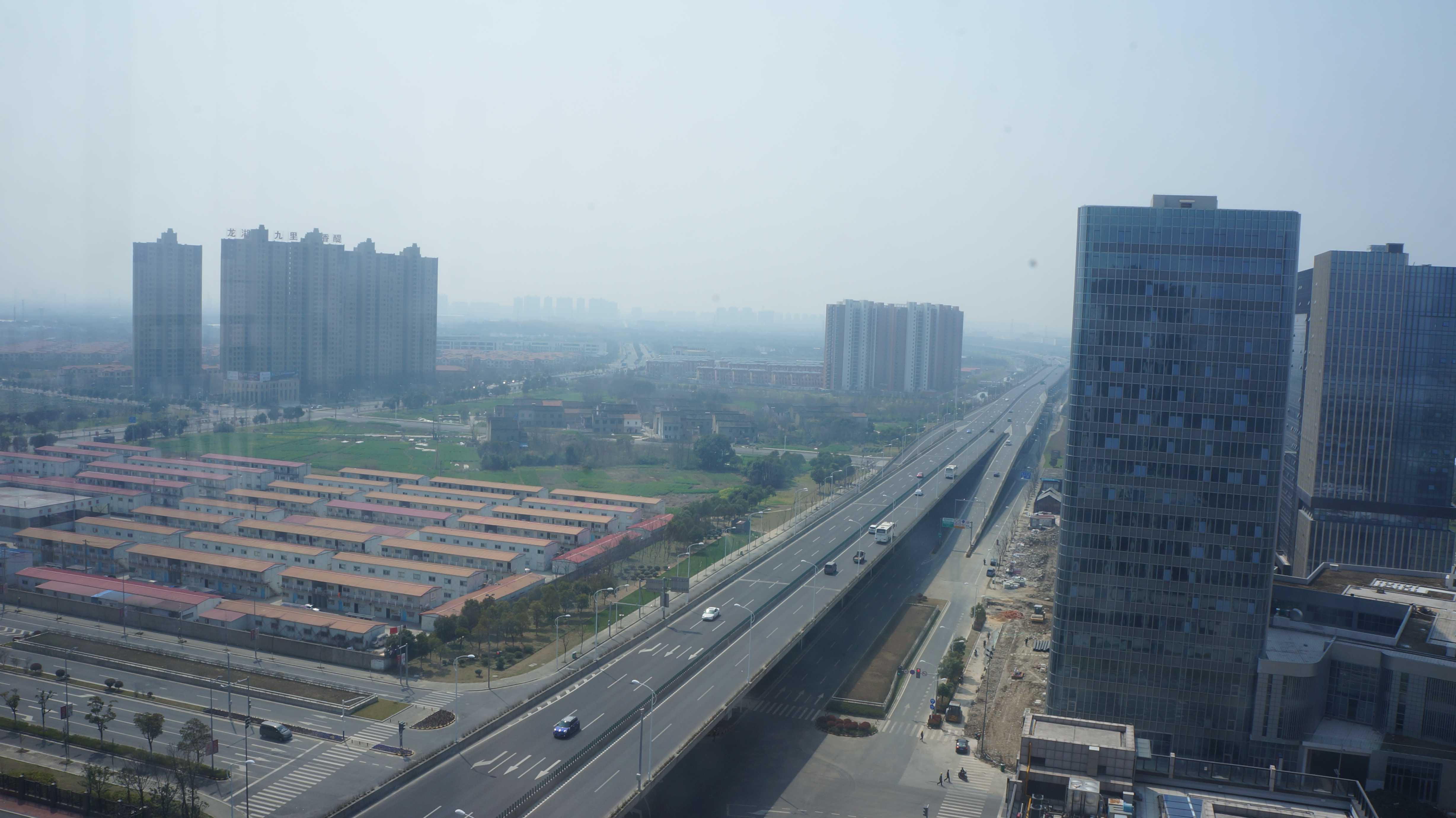 201603 Overview of Xidong New Town